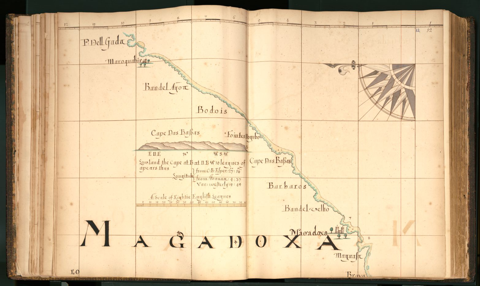 Coast Picture illustrating Magadoxa's location in reference to P. Dell Gada to correlate with the image of Aden